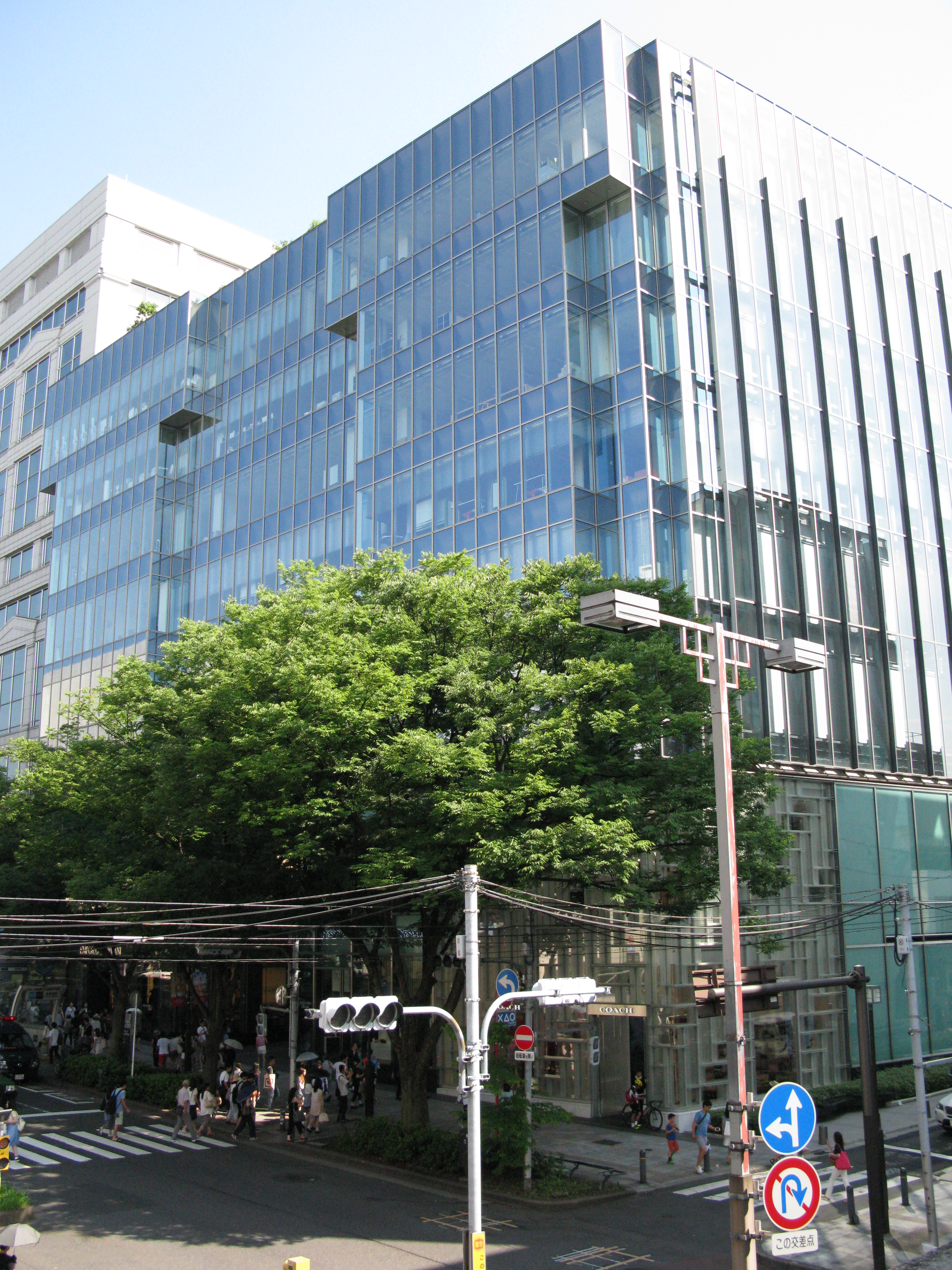 oak omotesando